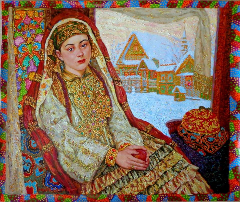 "The Tatar bride" canvas, oil. 60х80 cm 1995. There is in a collection of National Gallery "Hazine" Kazan, the Kremlin